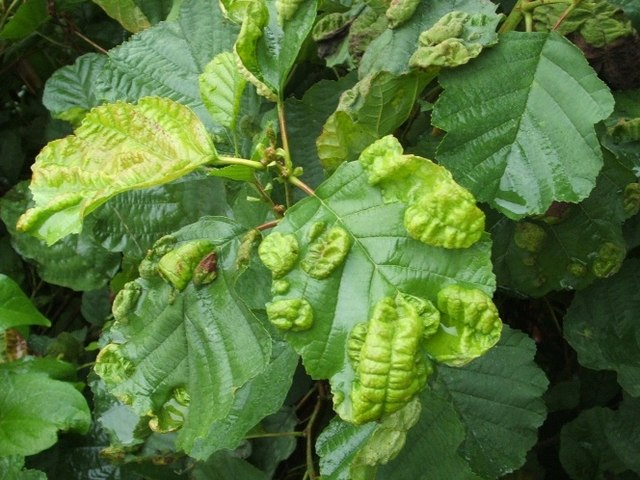 Leaf galls on alder This alder, which was situated beside the River Leven, had a large number of these blisters or pouches on its leaves, possibly caused by a fungus, Taphrina tosquinetii.